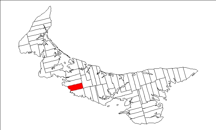 Public domain map of Prince Edward Island created by User:Plasma east with data courtesy of Geogratis, modified to show townships. Released under GFDL (self).